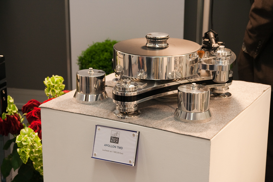 Transrotor Apollon TMD Laufwerk, ab 7000€ // Exhibits at HighEnd 2009 trade show, Munich, April 2009